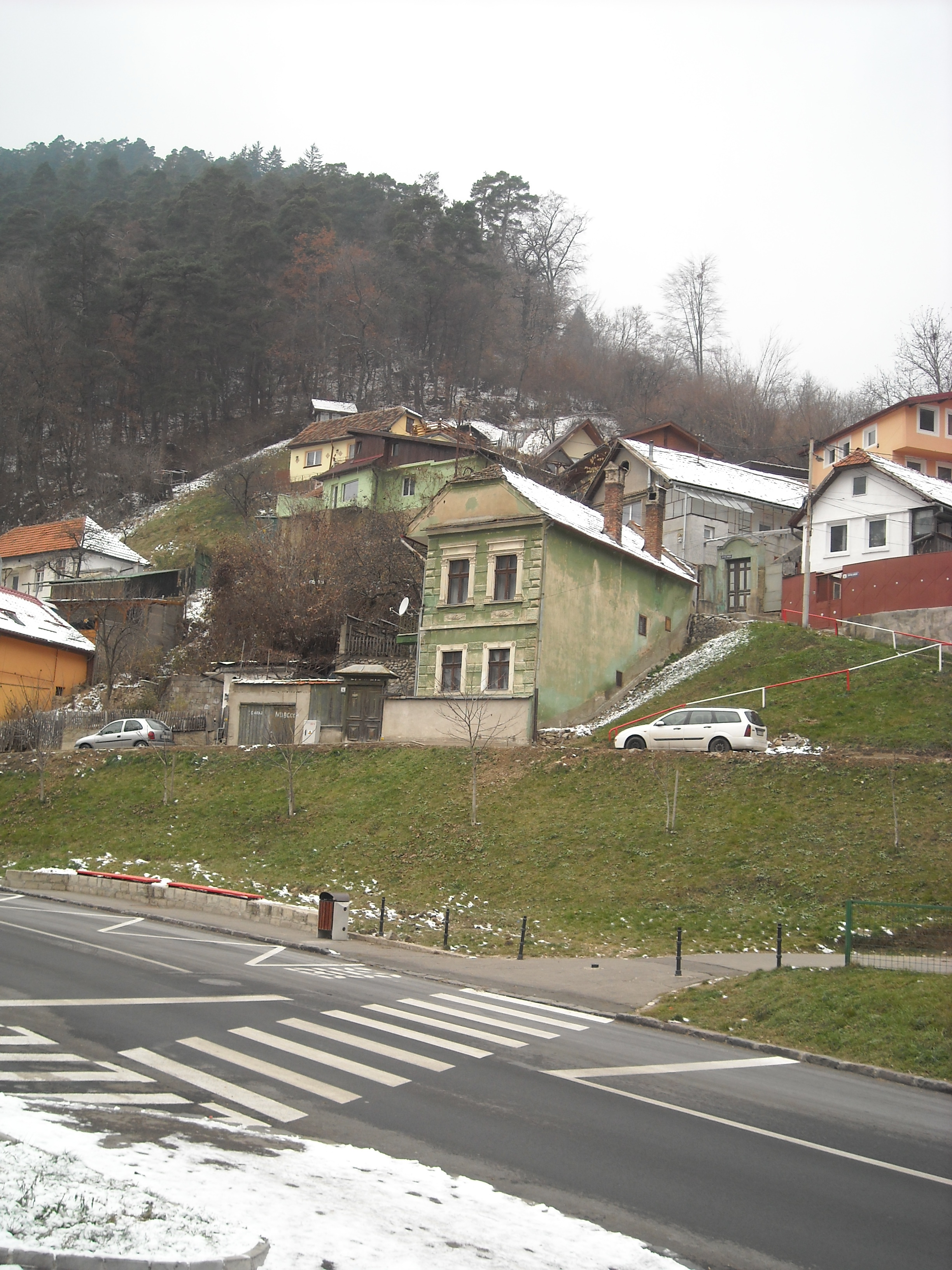 Variște neighbourhood of Șcheii Brașovului